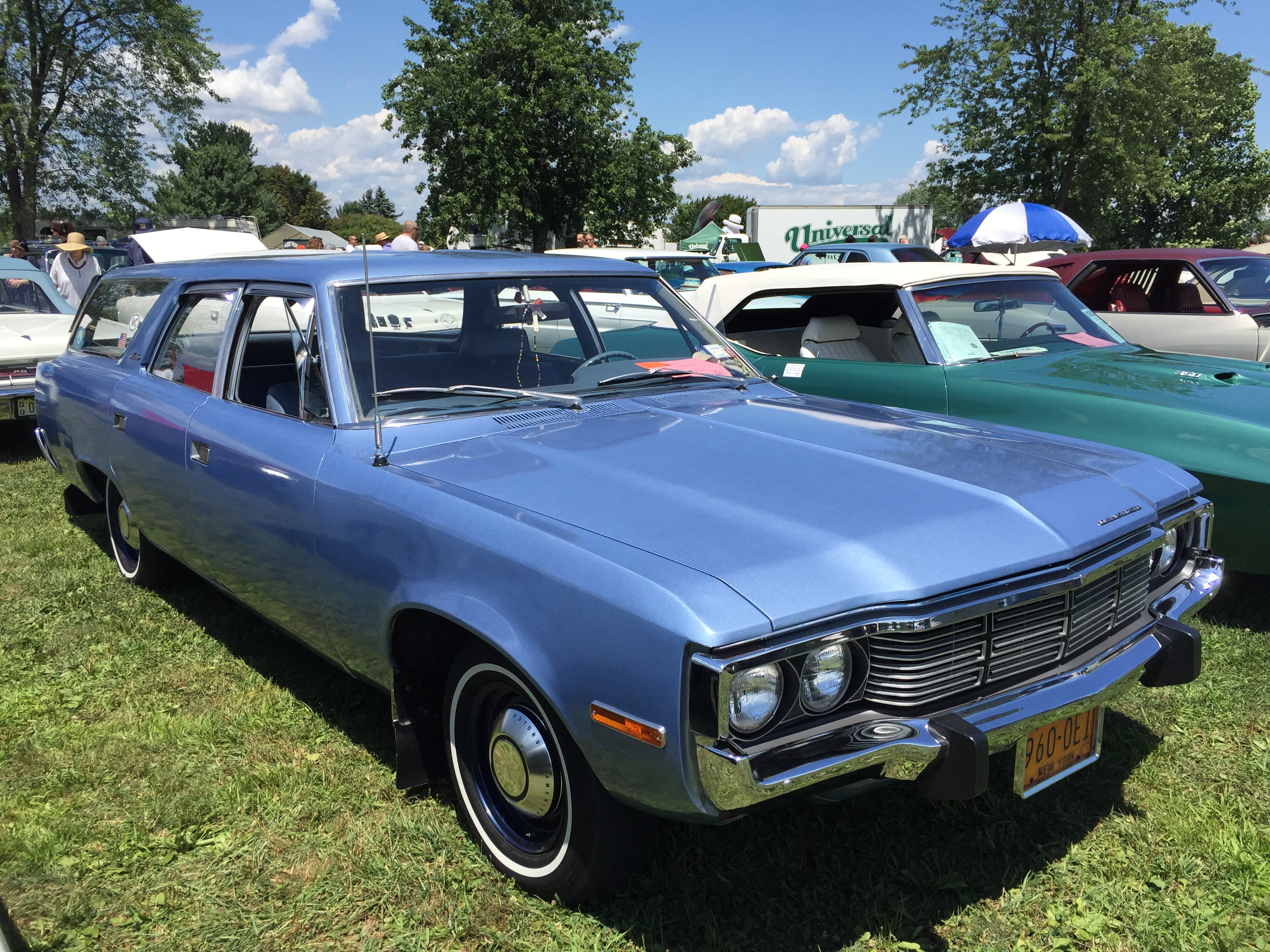 1973 AMC Matador station wagon, a mid-sized car made by American Motors Corporation (AMC). This wagon is finished in Diamond Blue metallic (paint code E1) and has the standard interior in blue that features two rows of bench seats offering room for six adult passengers. It also has the base trim such as the small hubcaps and no roof rack, but the standard vinyl bodyside scuff moldings are not present on this car. The twin rear side-mounted air deflectors are an aftermarket accessory. Picture taken at the 52nd Annual "Das Awkscht Fescht" antique car show in Macungie, Pennsylvania.